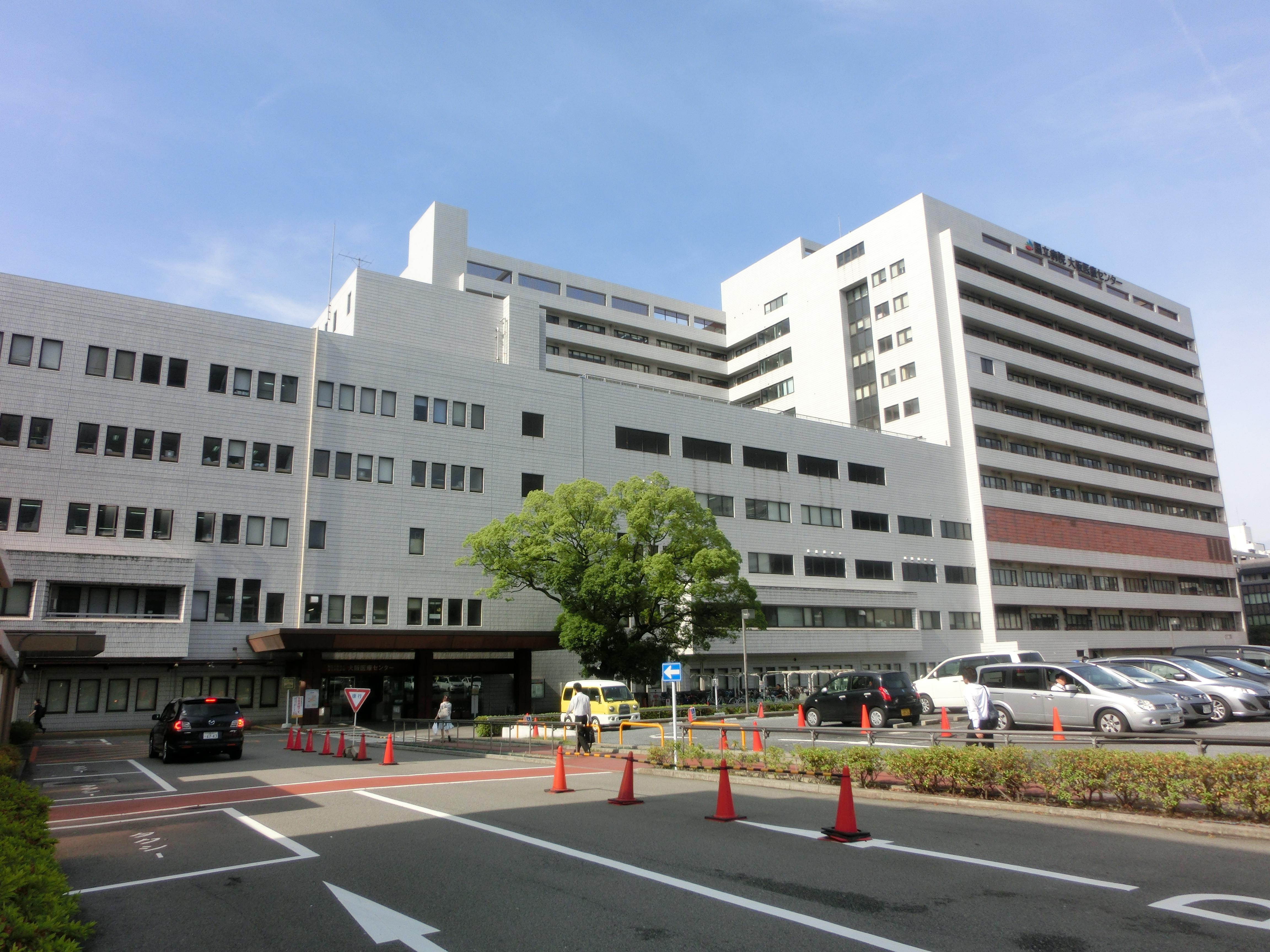 National Hospital Organization Osaka National Hospital 20160608